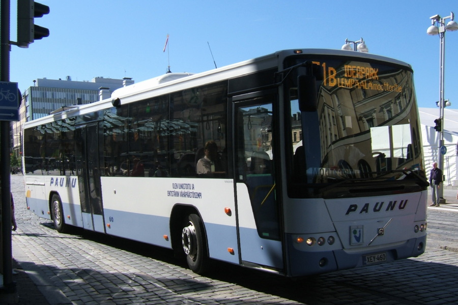 Volvo 8700 LE bus (reg. XEY-460, #60) with Volvo B7RLE chassis in Tampere, Finland. Built 2007, Väinö Paunu Oy from Tampere operator.